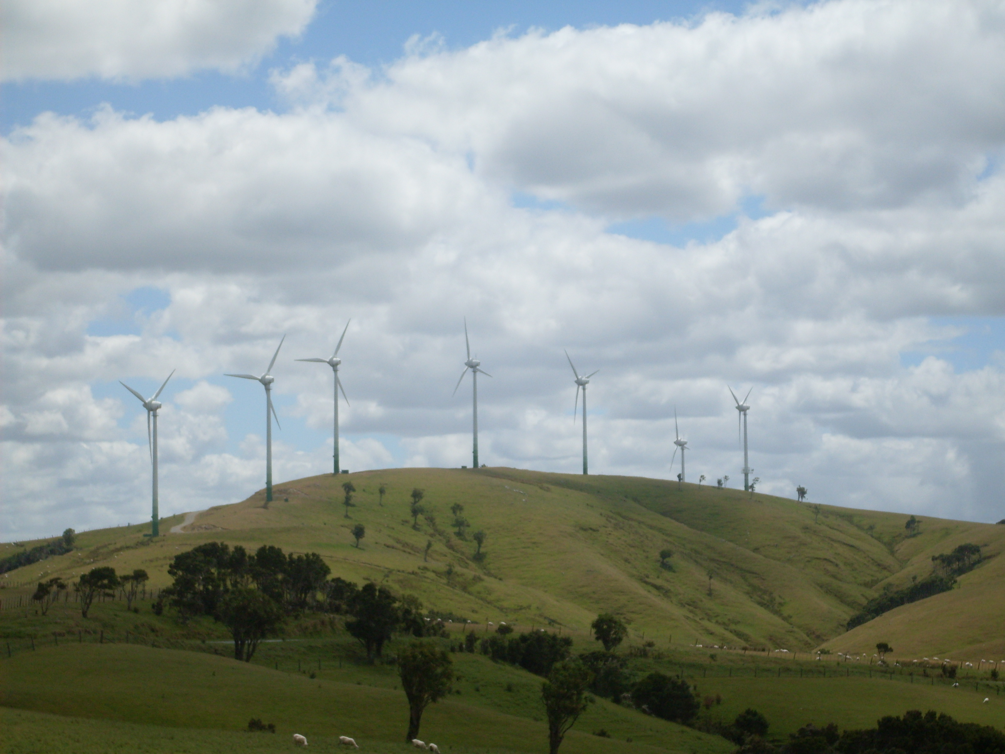 The seven Stage 1 turbines (each a Enercon E-40, generating 550 kW) at Hau Nui Wind Farm, taken from Range Road, south-east of Martinborough, New Zealand. Hau Nui was the first wind farm in New Zealand, and today has 15 turbines generating 8.65 MW at full capacity.